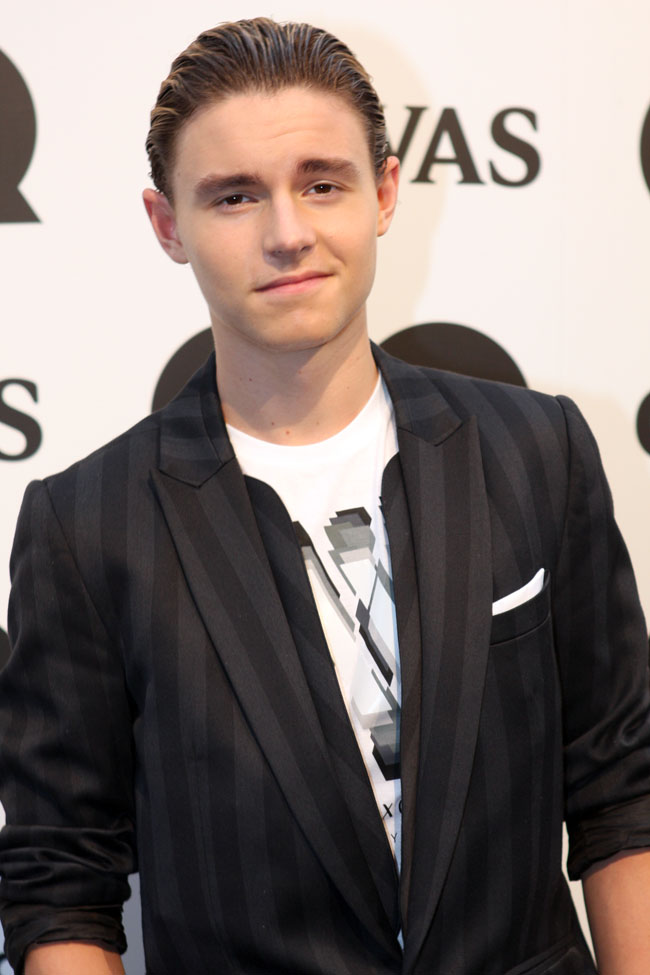 Callan McAuliffe at GQ Men Of The Year Awards 2011